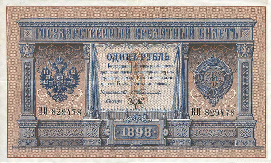 Russian Empire 1 ruble banknote, 1898 version, signed by Brut (Russian: Брут) and Timashev (Тимашев). Front side.